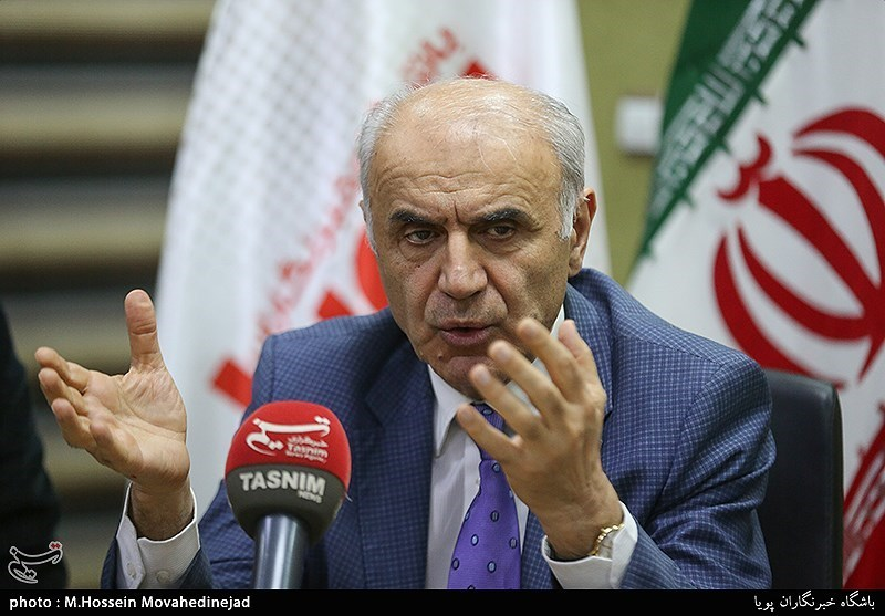 Artashes Tumanyan